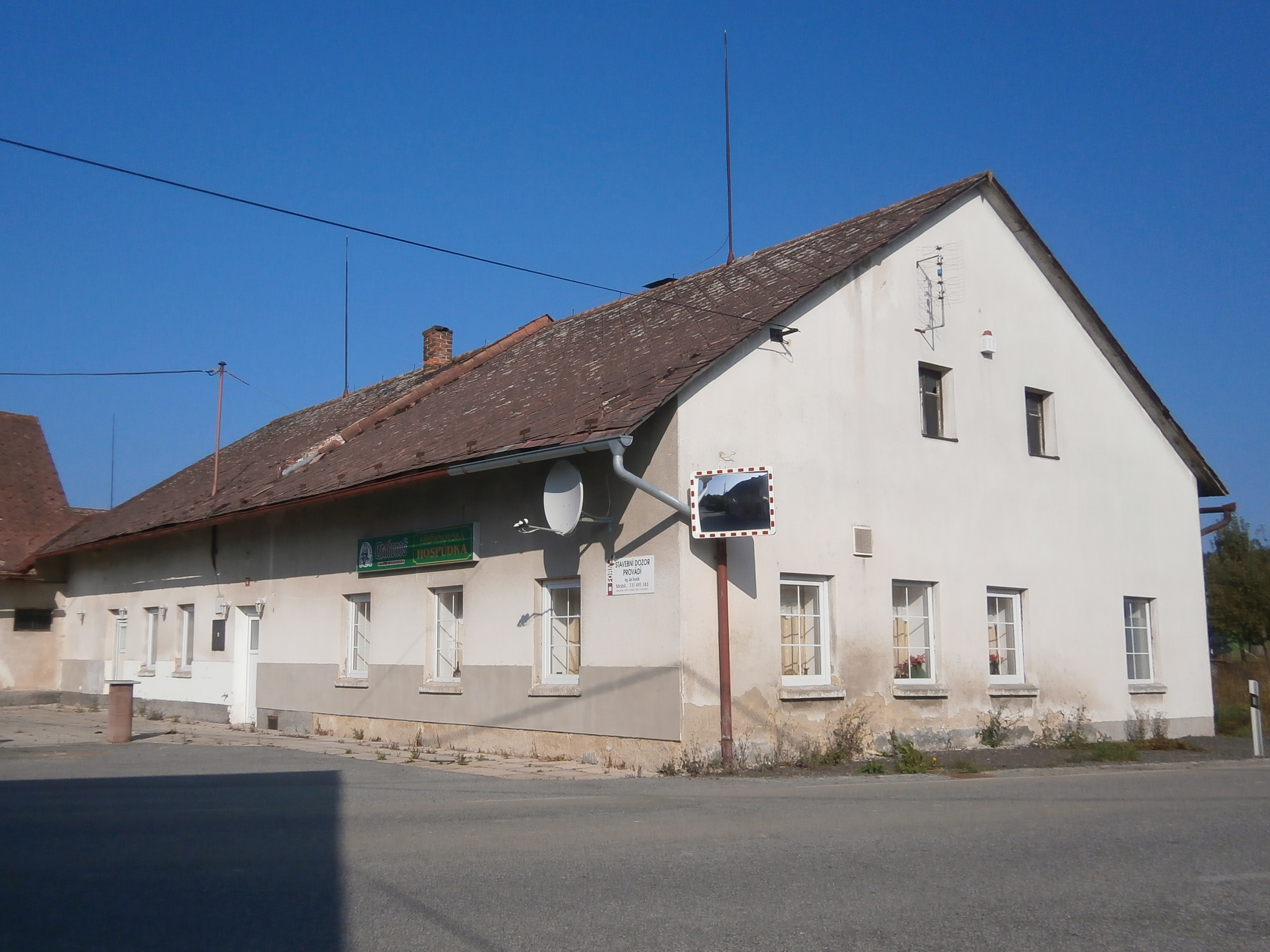 Pub in Křižanov (Hořičky, Czech Republic)